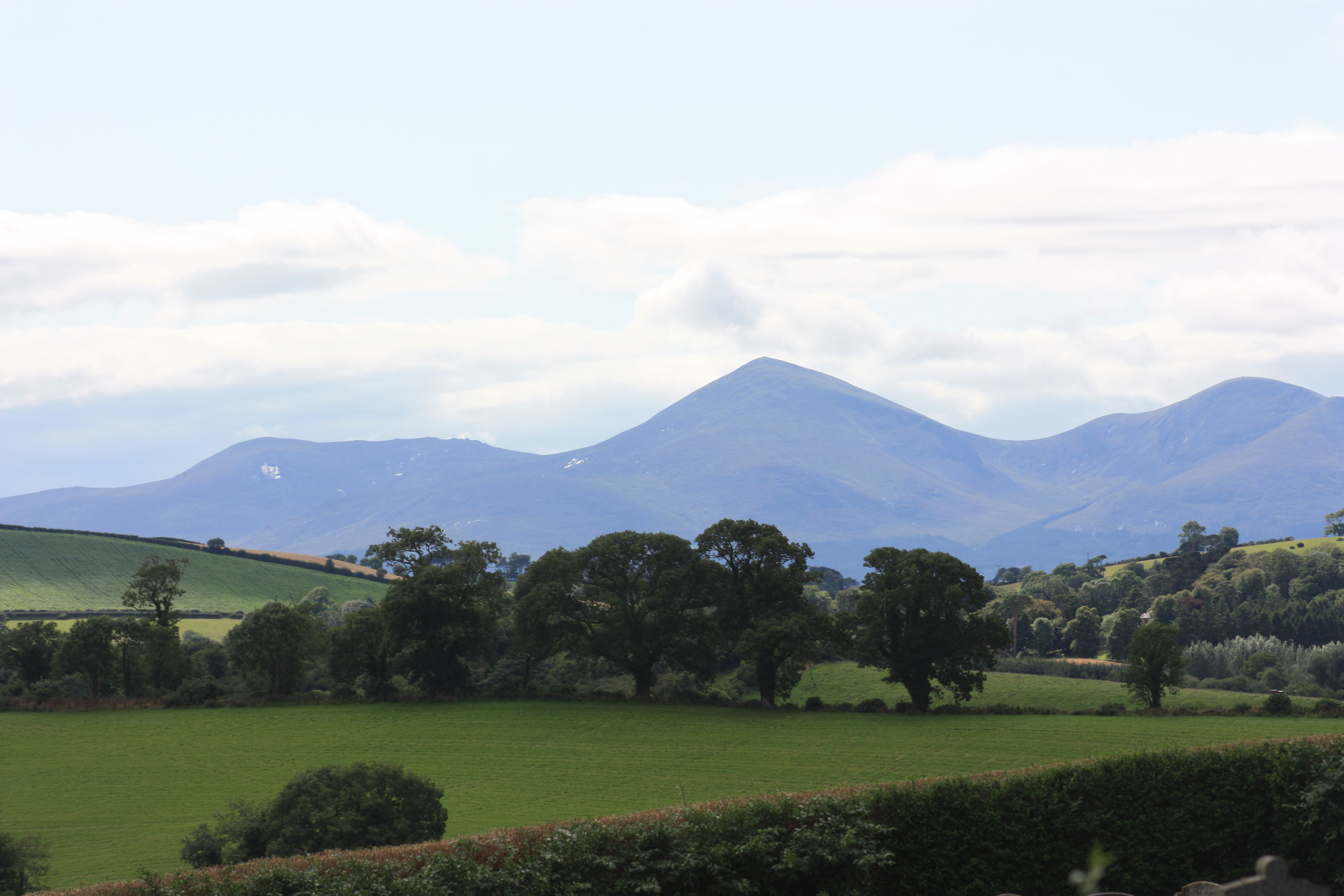 Mourne Mountains, County Down, Northern Ireland, August 2009 (viewed from Down Cathedral, Downpatrick)